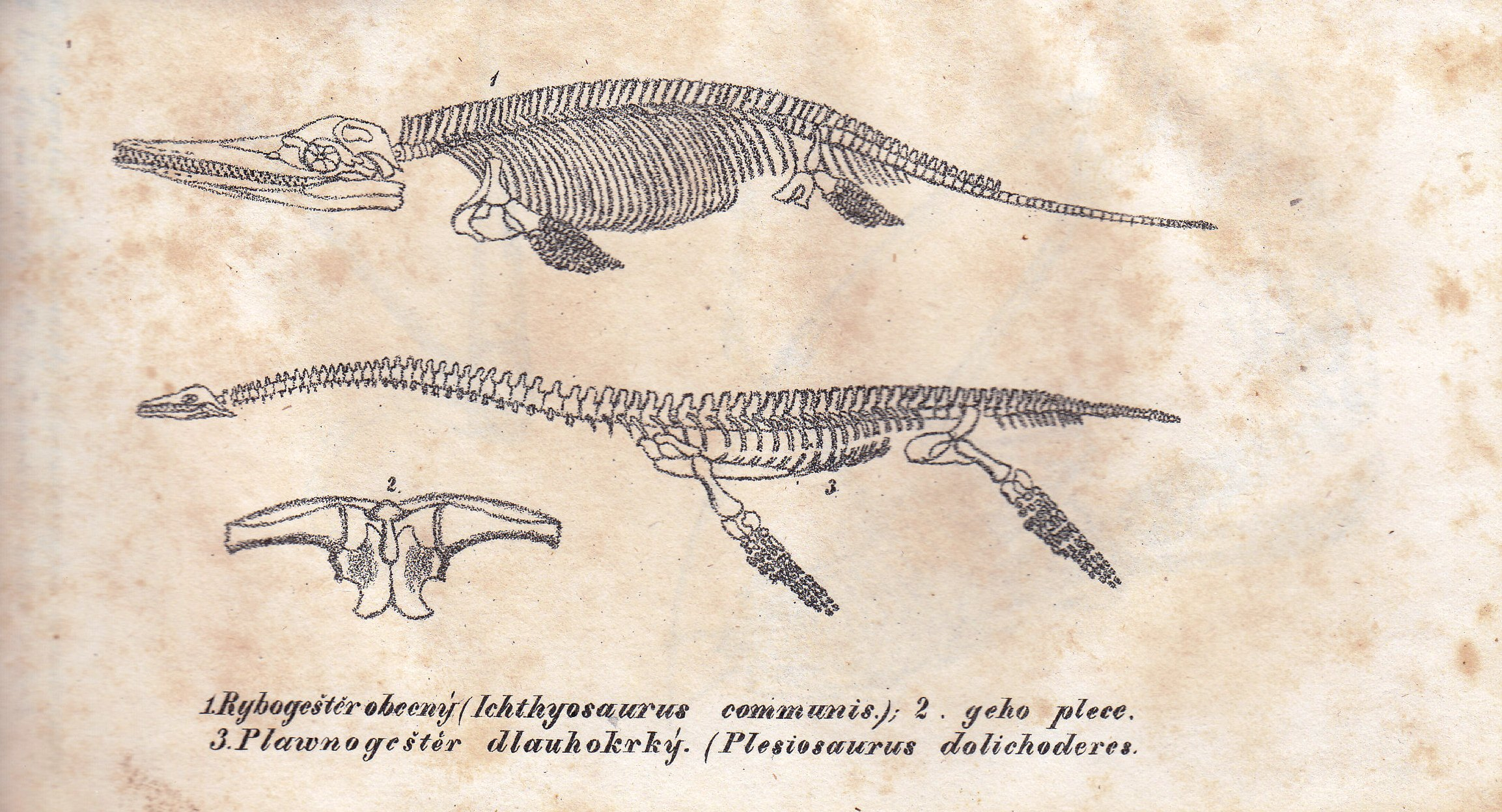 "Ichthyosaurus communis" (1), its vertebrae (2) and "Plesiosaurus dolichoderes" (3) from the 1834 Czech edition of George Cuvier's "Discours sur les révolutions de la surface du globe et sur les changements qu'elles ont produits dans le règne animal"